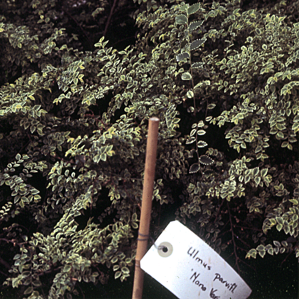 Ulmus parvifolia 'Nana Variegata' in Boskoop 1984.